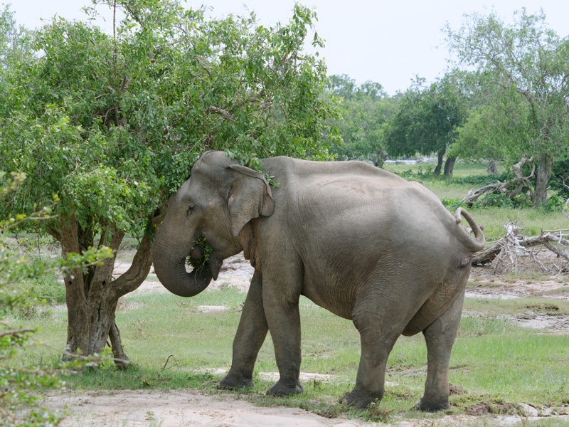 Sri Lankan elephant in Yala National Park, Sri Lanka